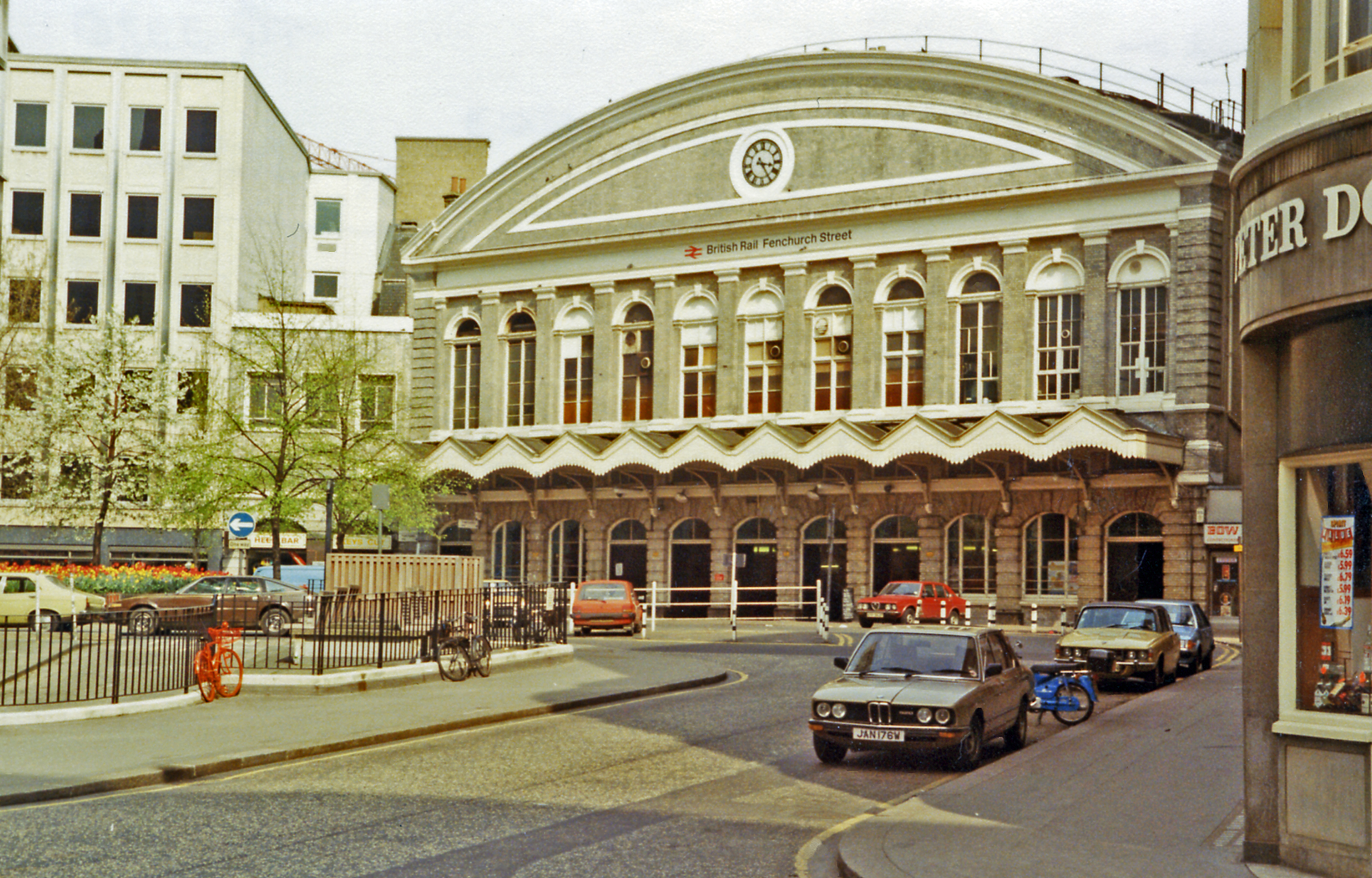 Fenchurch Street station, entrance 1983. The fine 1854 frontage of one of London's less distinguished termini, that of the Tilbury Line, is seen on a quiet Sunday afternoon. My BMW 520 is prominent in the foreground.